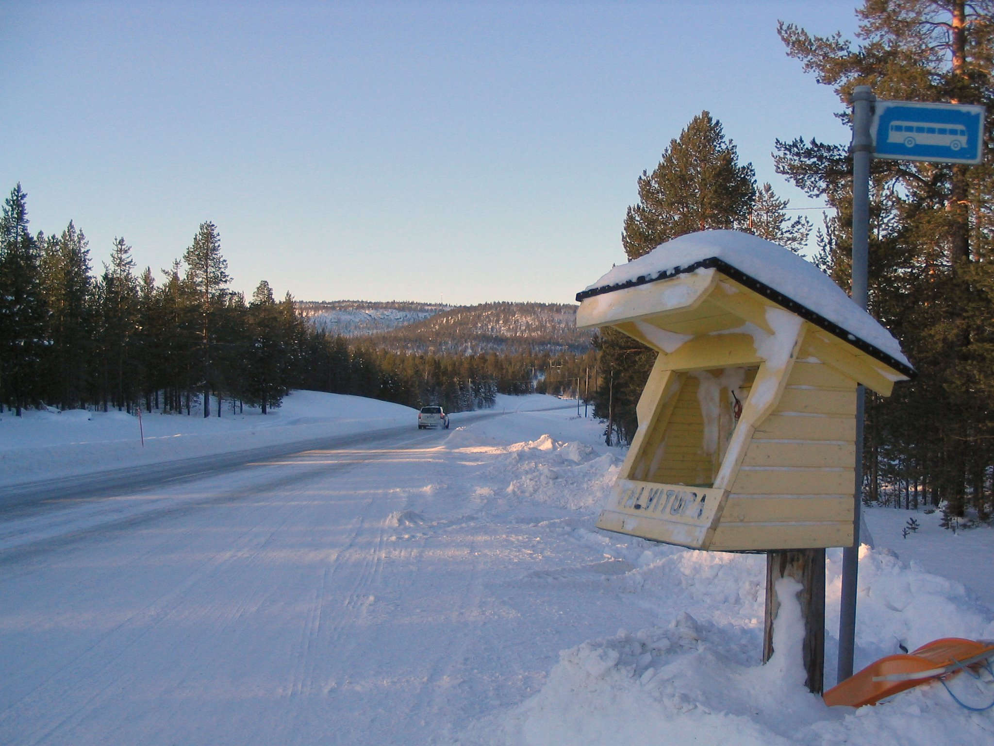 A mailbox at national road 4 (E75) in Inari, Finland, 26 kilometres north of Ivalo.